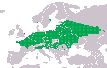 Distribution of Pelophylax lessonae